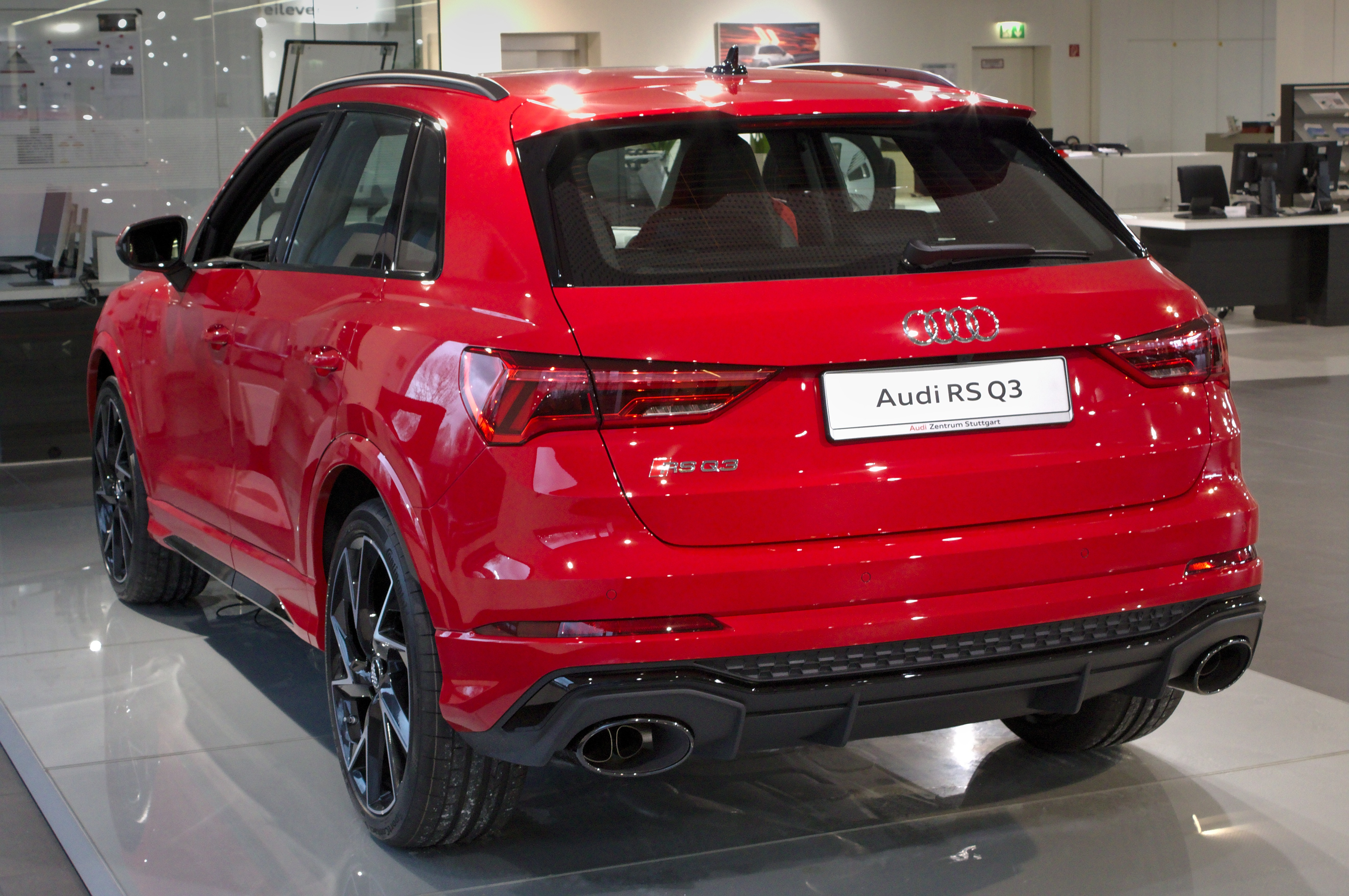 Audi_RS_Q3_F3 in Stuttgart-Vaihingen